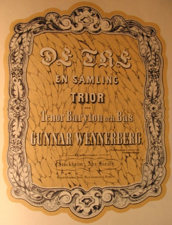 Front cover to the original edition (1851) of the swedish song trios "De Tre", with words and music by Gunnar Wennerberg (1817-1901).